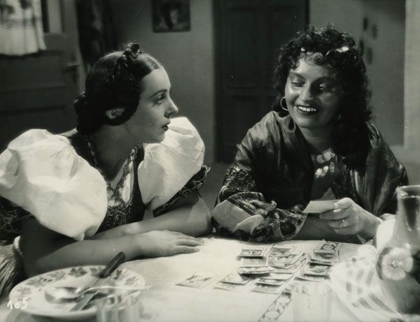 Scene from the Hungarian movie titled Piros bugyelláris (The Red Wallet) (released in 1938)